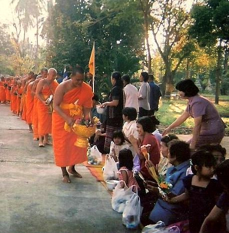 Buddhist priest faculty is walking to receive food from the Buddhist.Thailand, Uttaradit, 2002. Own work မြန်မာဘာသာ: ထိုင်းနိုင်ငံရှိ ဦးထရာဒစ်မြို့၌ ဆွမ်းခံနေကြသည့်ရဟန်းများကို တွေ့ရစဉ်။